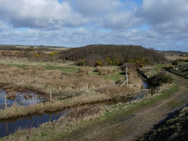 Keyhaven Marshes. Good variety of habitats here means that it is possible to see a large number of different bird species